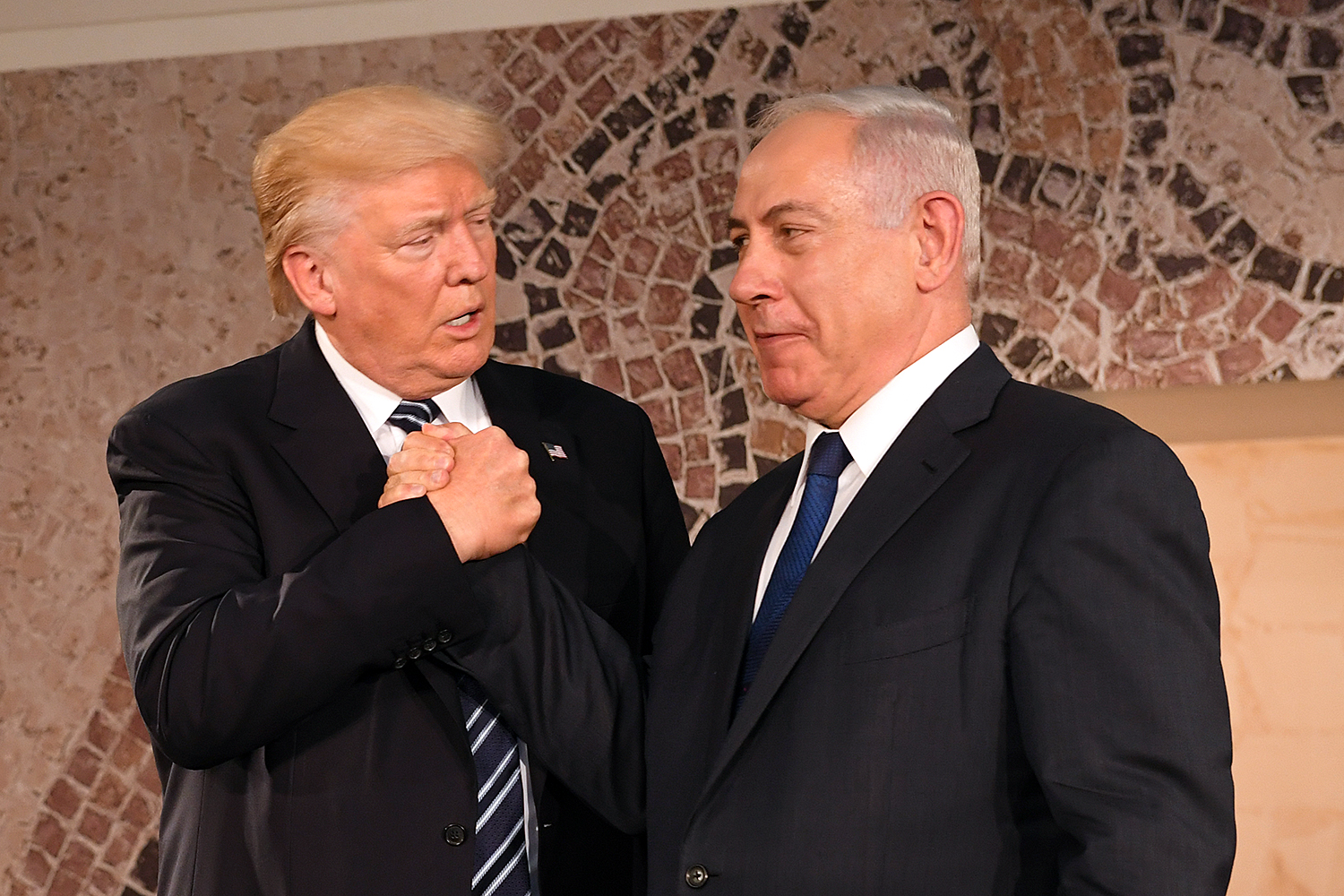 President Trump at the Israel Museum. Jerusalem May 23, 2017 President Trump at the Israel Museum. Jerusalem May 23, 2017